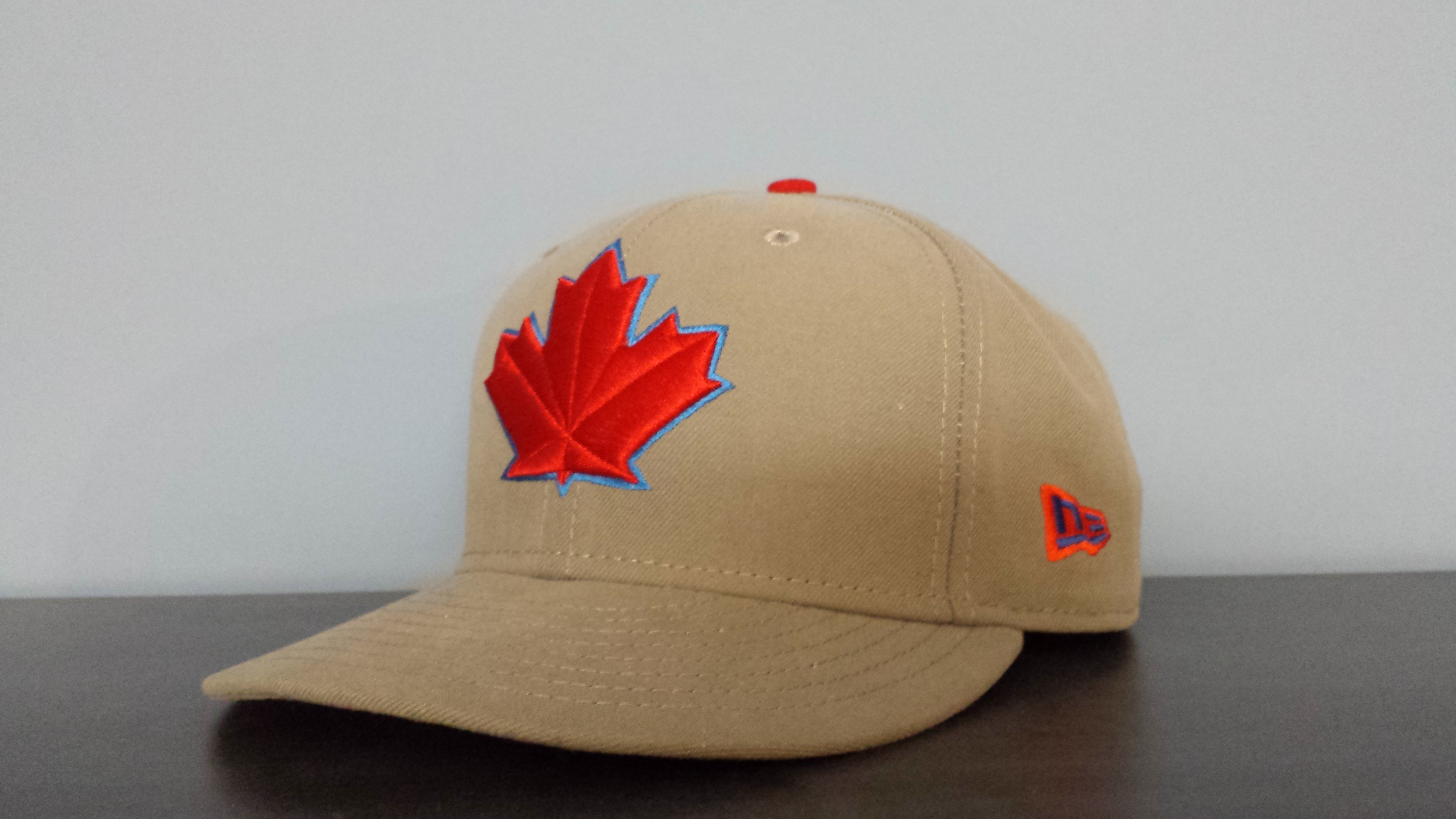 Field cap of the Toronto Blue Jays worn on Canada Day in away colours